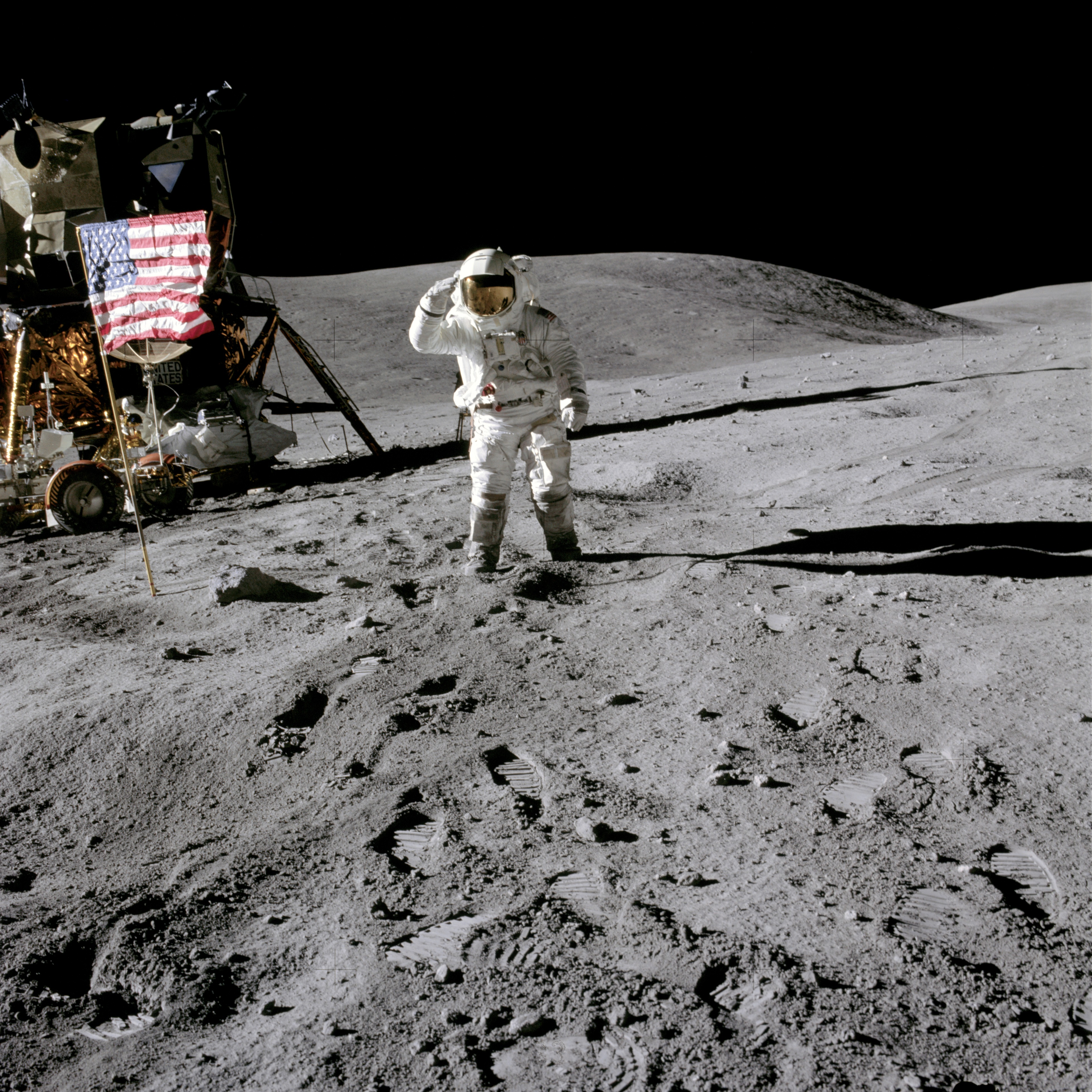 Lunar Module Pilot Charles Duke salutes the flag